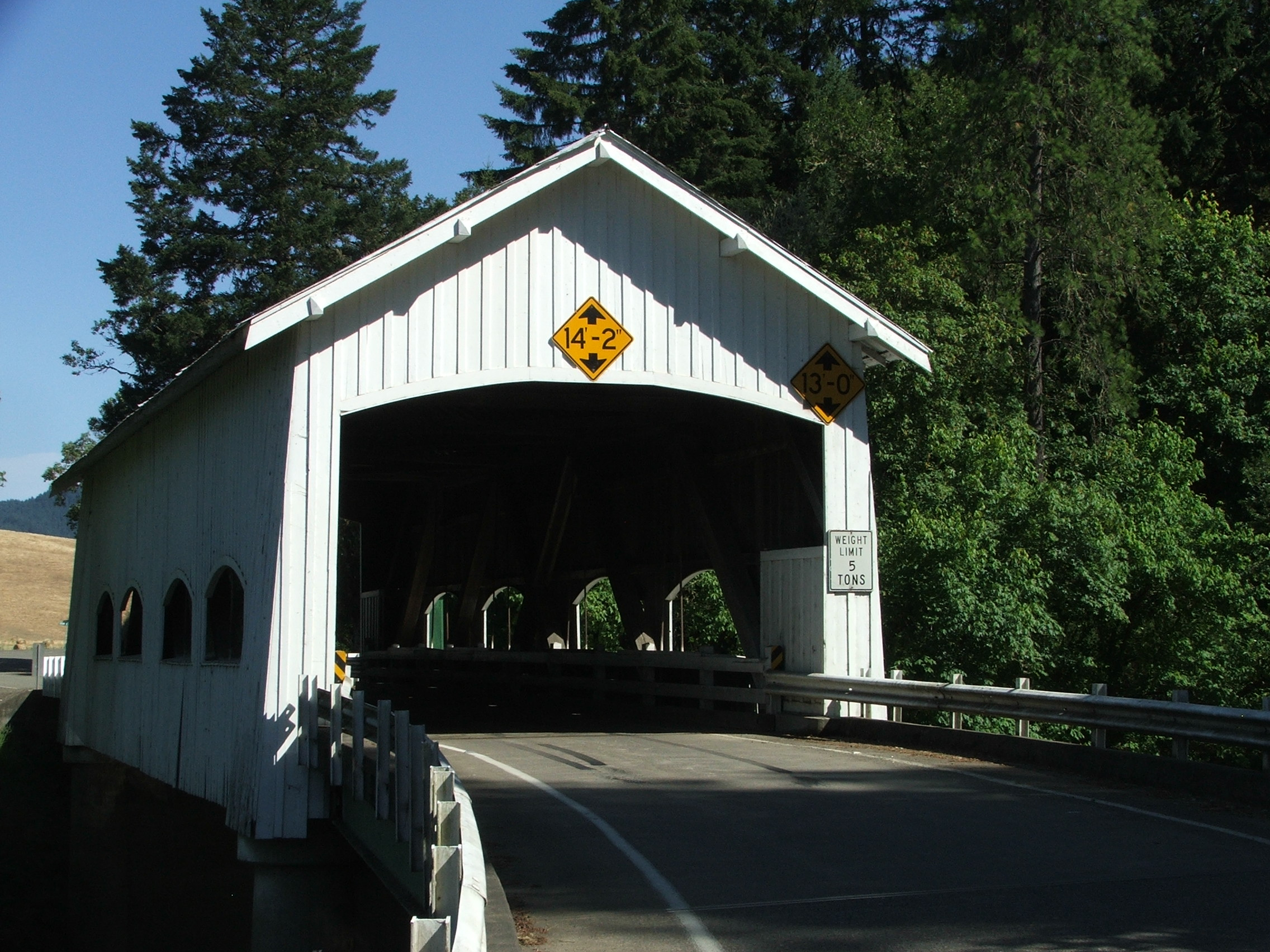 Rochester covered bridge - three miles northwest of Sutherlin, Oregon. See List of Oregon covered bridges